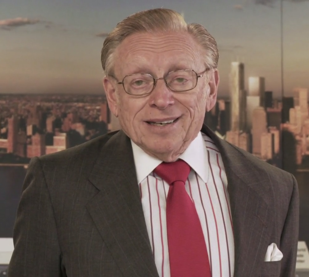 New York City real estate businessman Larry Silverstein appearing for the United Jewish Appeal - Federation of Jewish Philanthropies of New York, Inc.